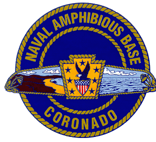 NAB Coronado insigina